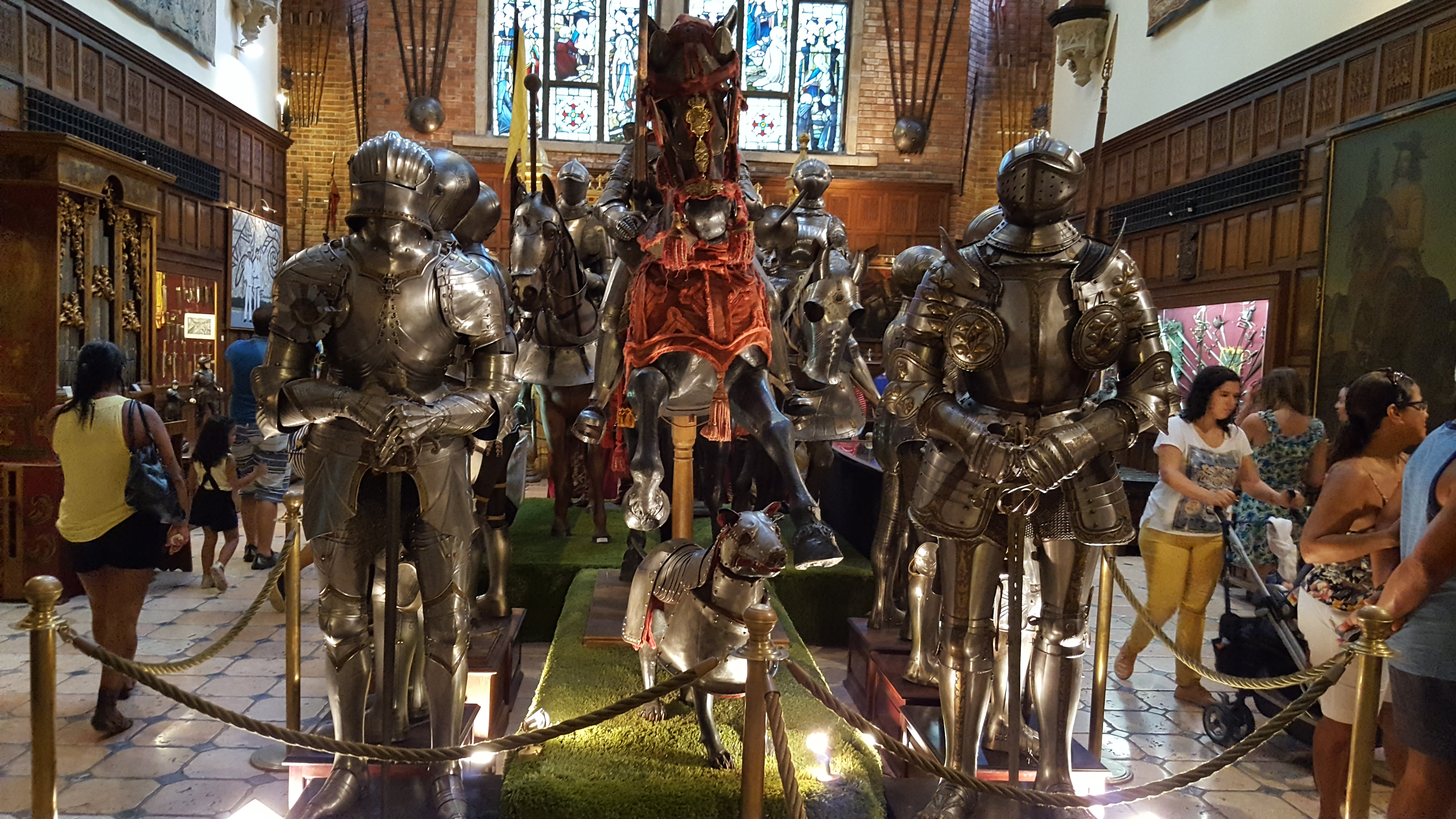 Full plate armour collection in Ricardo Brennand Institute, Recife.